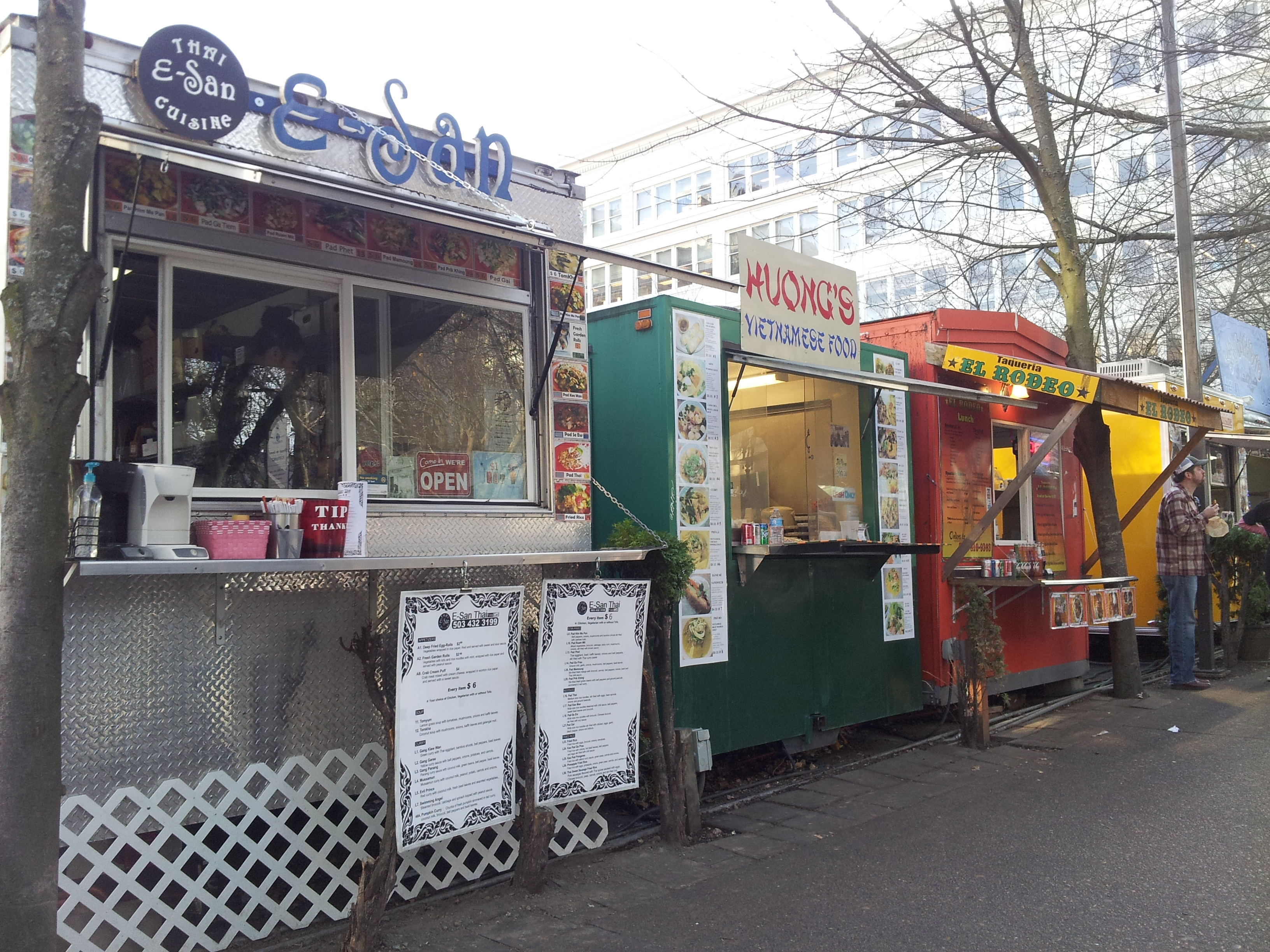 Food carts at SW 10th between Washington and Alder, Portland, Oregon (2013)